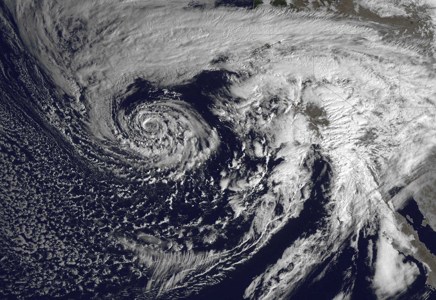 Satellite image of Winter Storm Titan early on February 28, 2014, as the system nears peak intensity off the coast of California. This image has been modified to improve visibility.